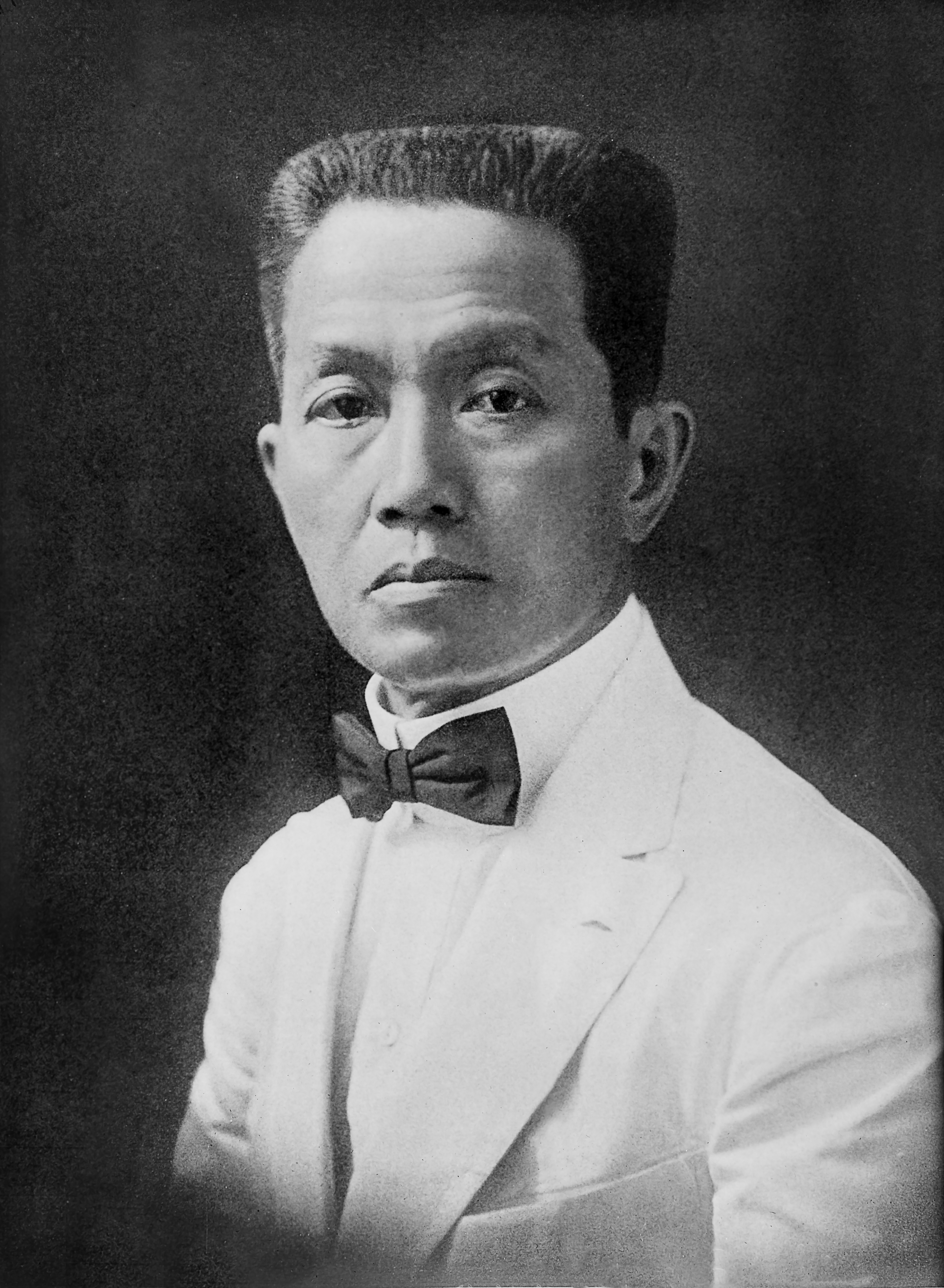 Portrait of Emilio Aguinaldo (1869–1964), first president of the Philippines, in c. 1919. (Restoration) Filipino: Larawan ni Emilio Aguinaldo (1869–1964), ang unang pangulo ng Pilipinas, noong 1919.